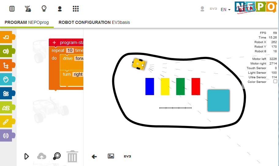 Open Roberta Simulation environment, v1.4.0